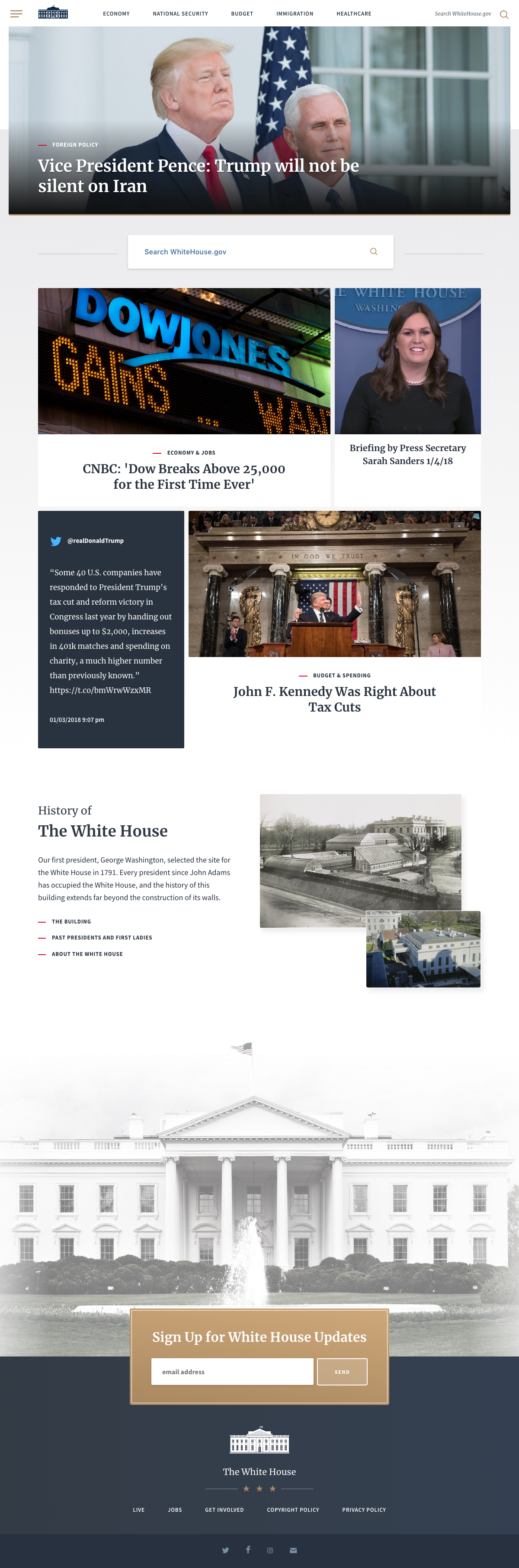 Screenshot of on January 5, 2018.